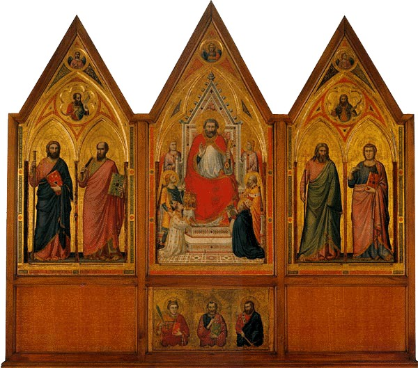 The Stefaneschi Triptych, front face, created by Giotto di Bondone in 1320 for Cardinal Jacopo